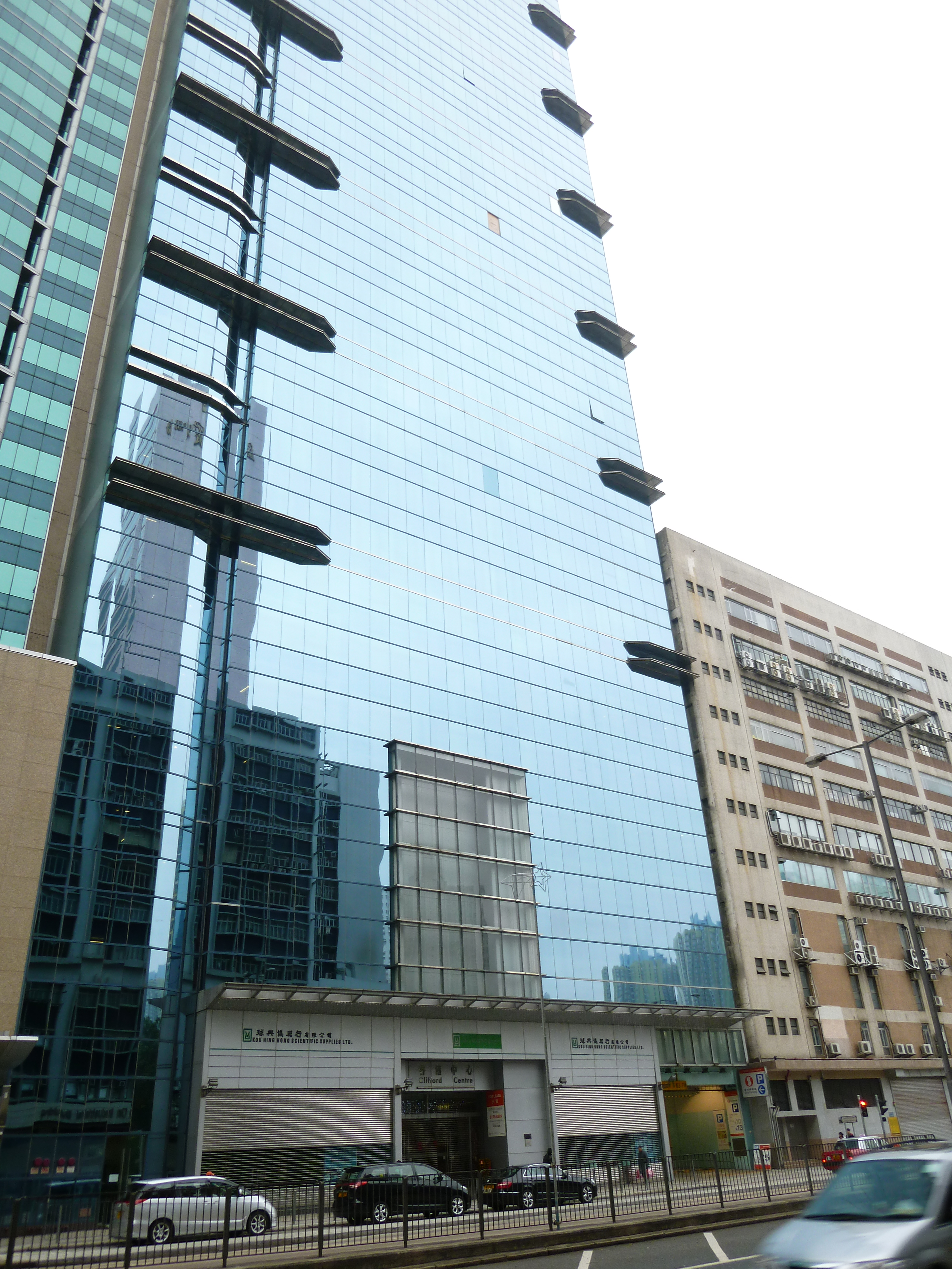 Clifford Centre (778-784 Cheung Sha Wan Road, Kowloon, Hong Kong)